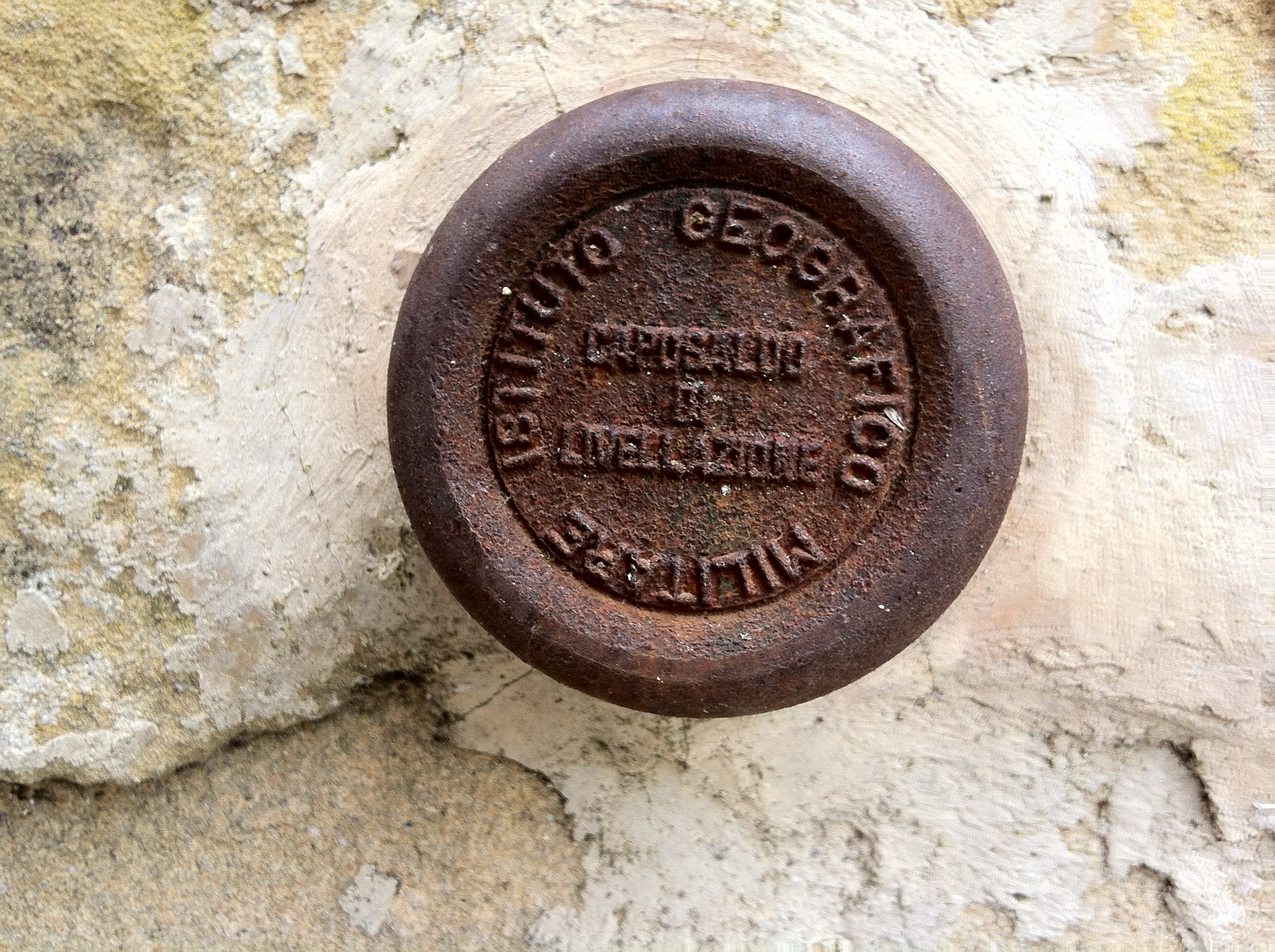 Benchmarks of Istituto Geografico Militare (IGM) on the hill of S. Elia in Viale L. Monaco between n. civic 18 and the n. civic 20 in Caltanissetta, Sicily.[1][2]